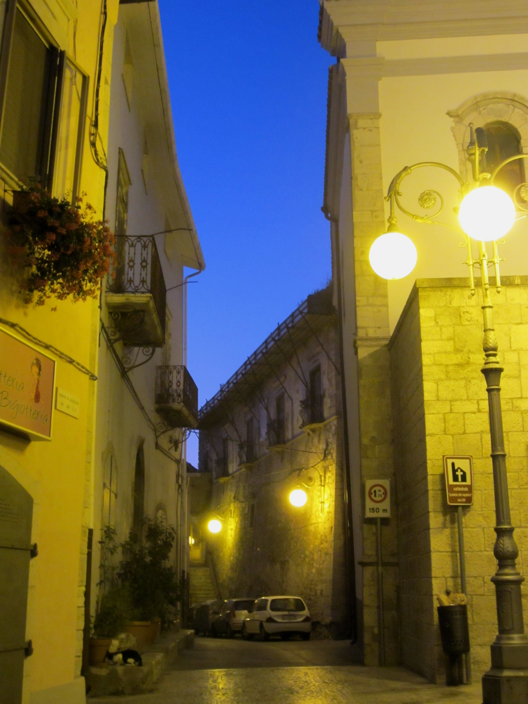 Ripacandida